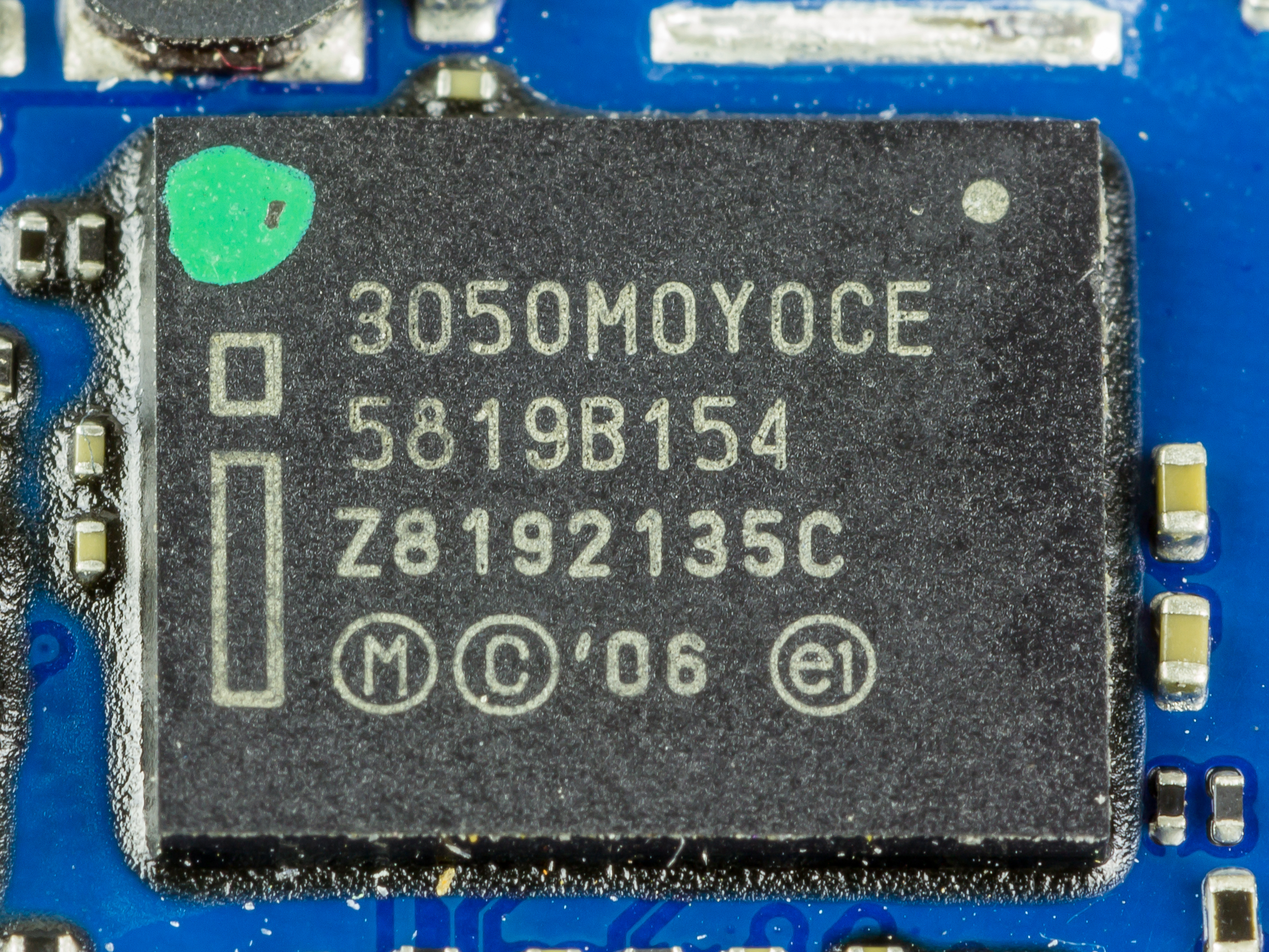 iPhone 3G teardown - Intel 3050M0Y0CE - NOR Flash